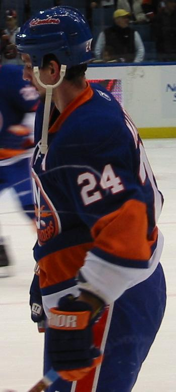 Radek Martinek at a New York Islanders game.